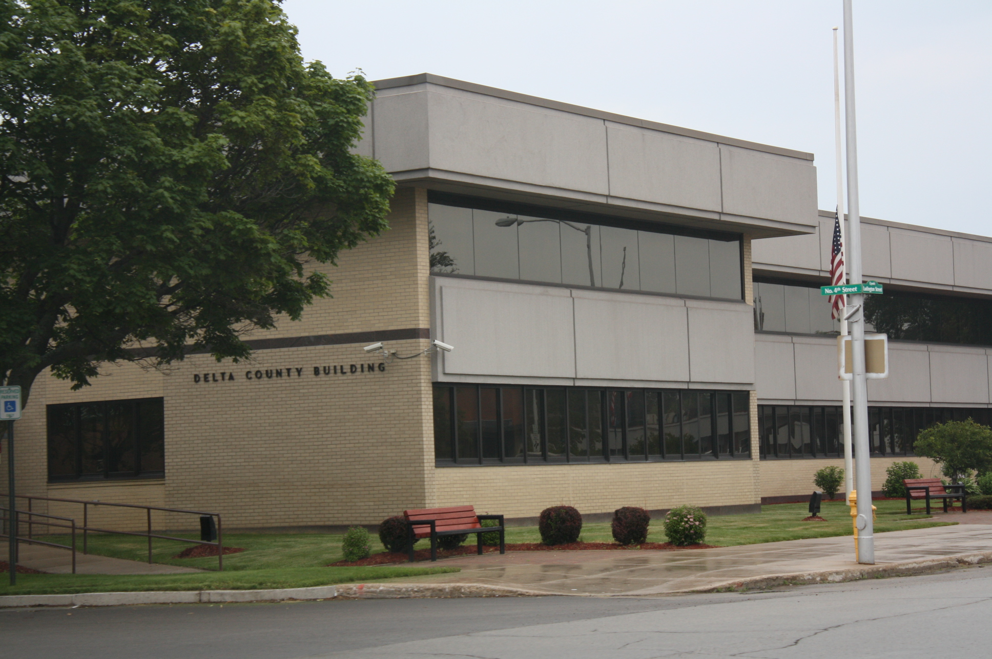 A Delta County, Michigan building in downtown Escanaba, Michigan.